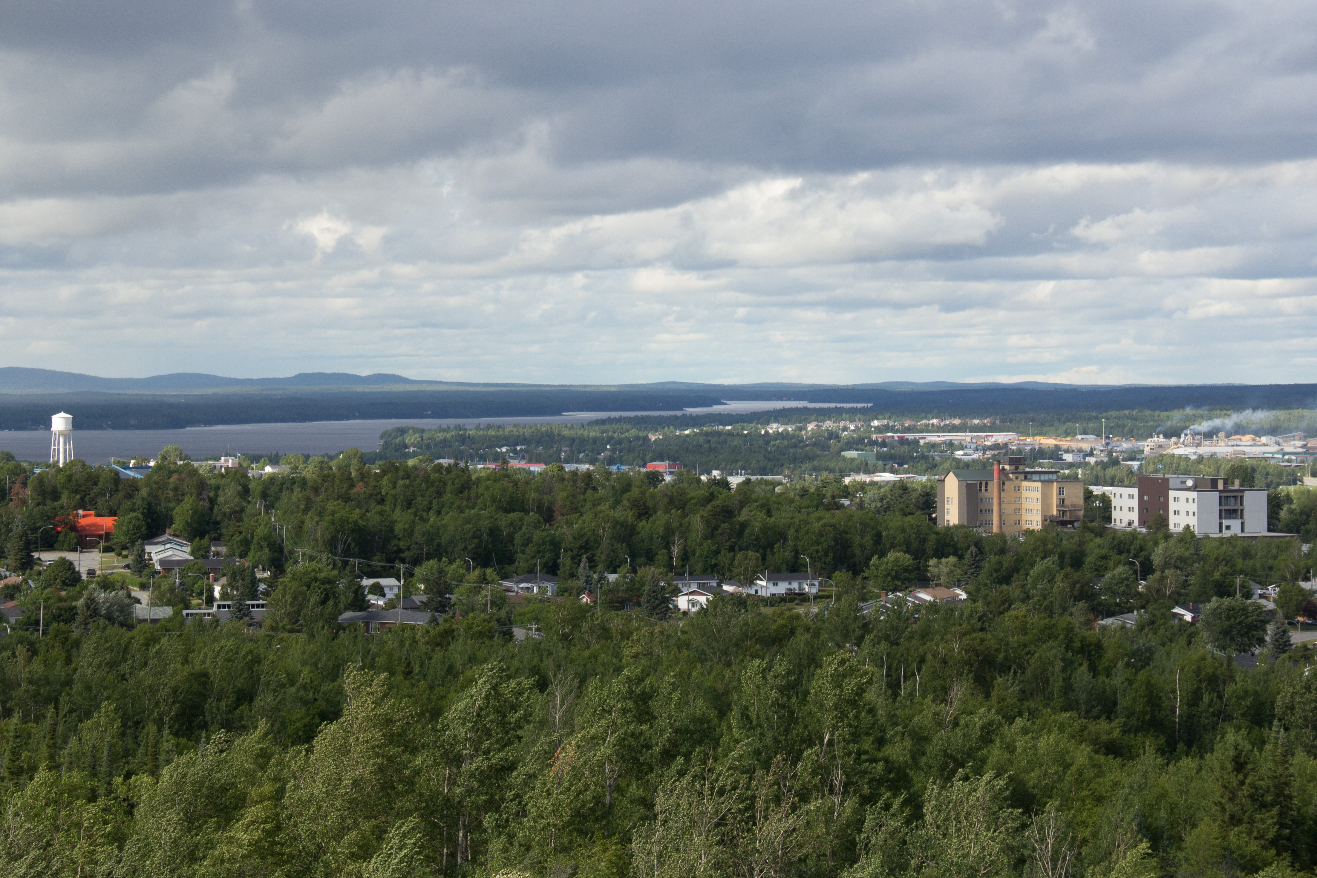 Val-d'Or city from Rotary Tower